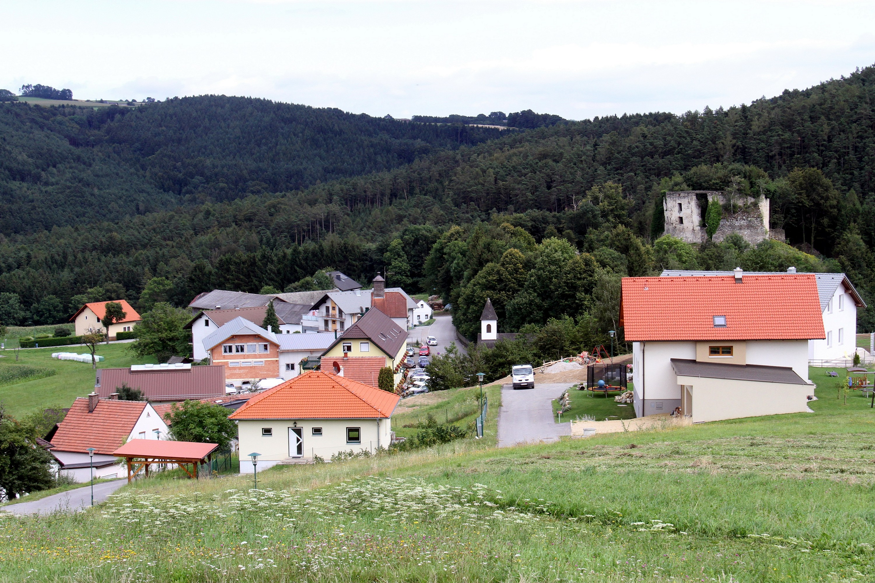 Municipality Hollenthon in Lower Austria. – The photo shows the panorama of Stickelberg. On the right side the ruin of Stickelberg castle.